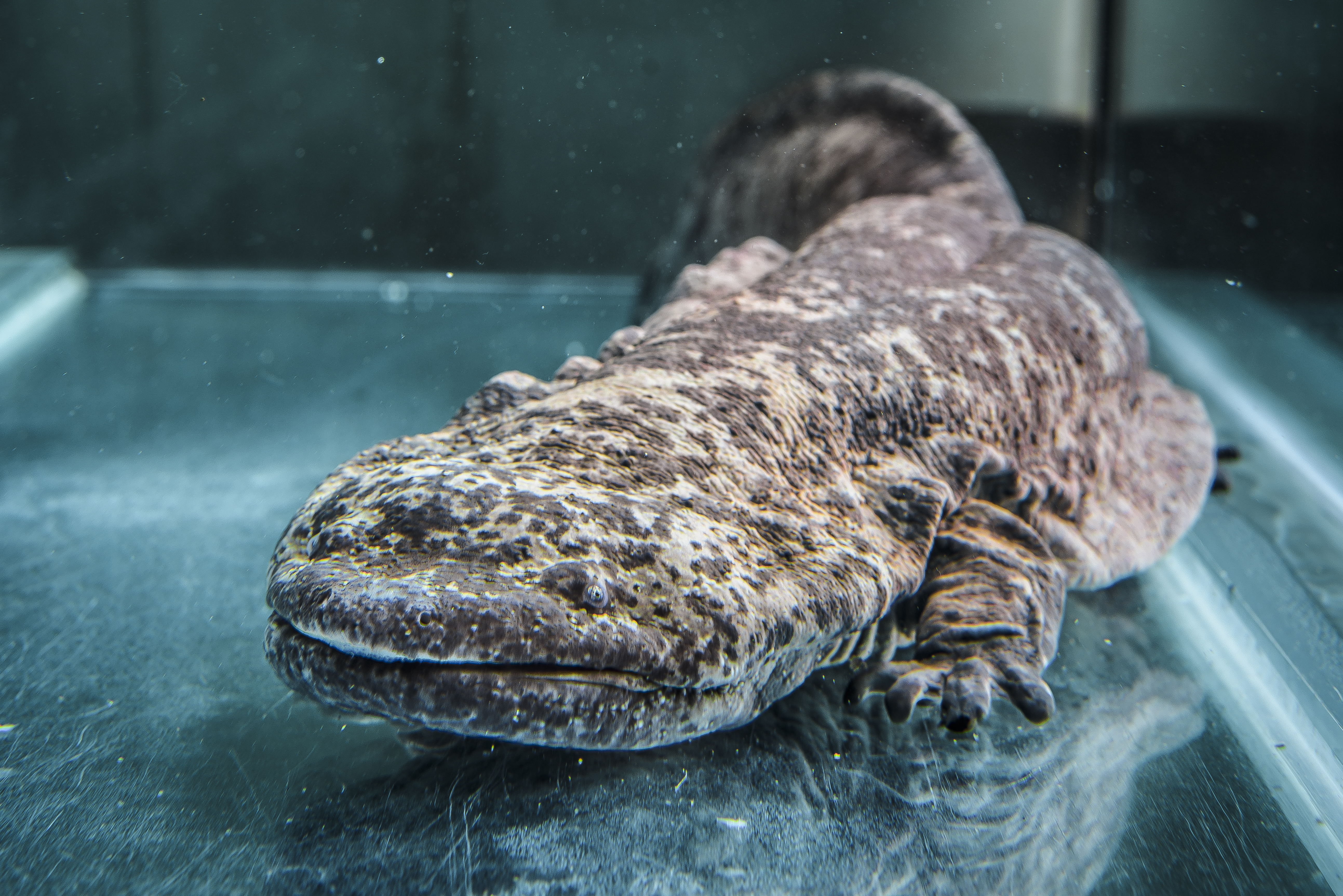 Chinese giant salamander in Prague Zoo